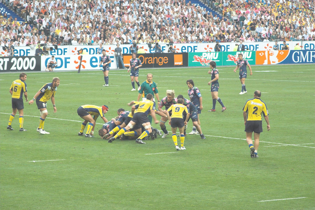 Top 14 (french rugby championship) final ASM vs Stade Français